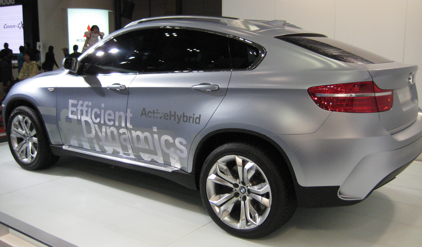 BMW Concept X6 Active Hybrid in Tokyo Motor Show 2007